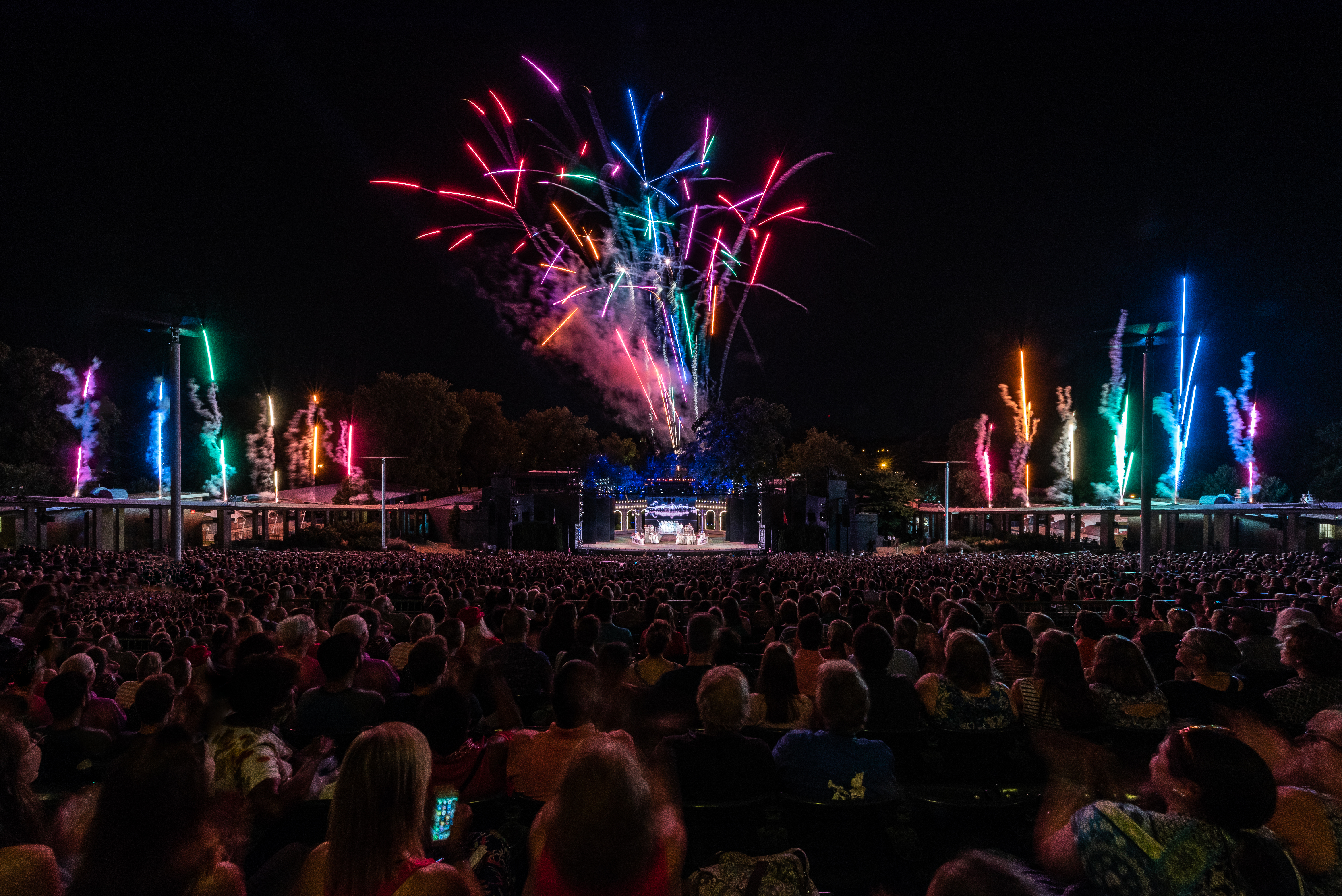 A scene from MEET ME IN ST. LOUIS at The Muny in 2018.